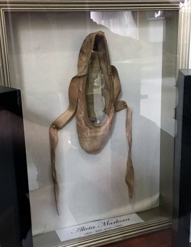 Pointe shoe belonging to English ballerina Alicia Markova. Currently housed at The Shoe Room, Canada's National Ballet School, Toronto, ON